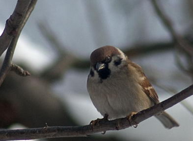 A Eurasian Tree Sparrow in Rumia, Poland